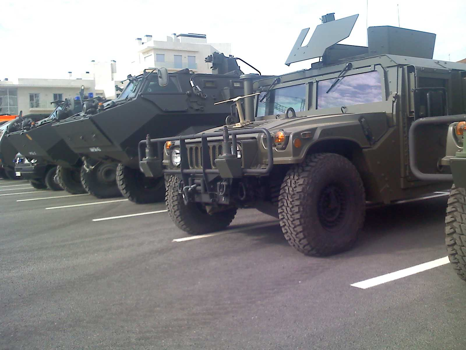 Portuguese Air Force Hummer and Condor armoured vehicles